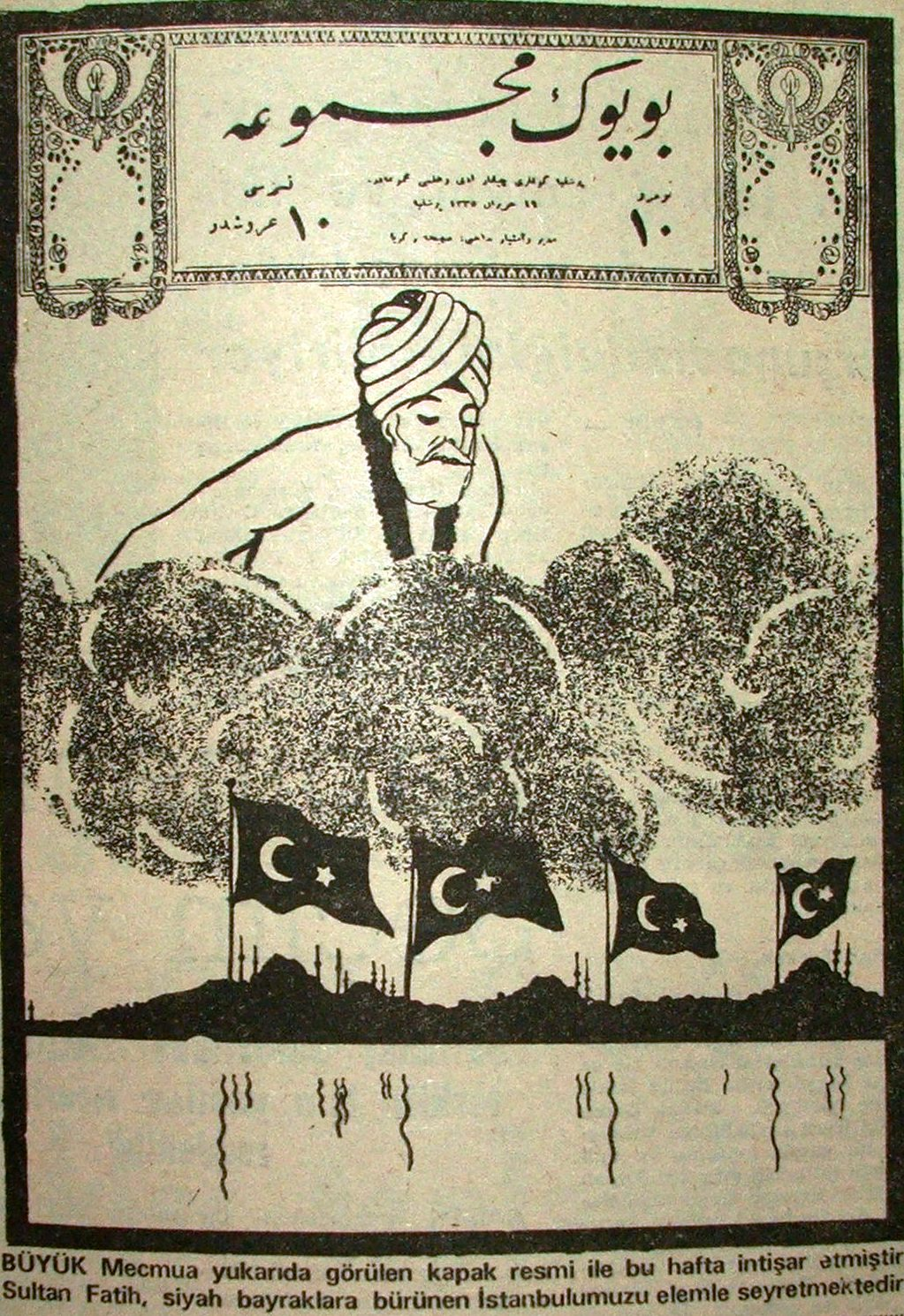 A caricature from Büyük Mecumua